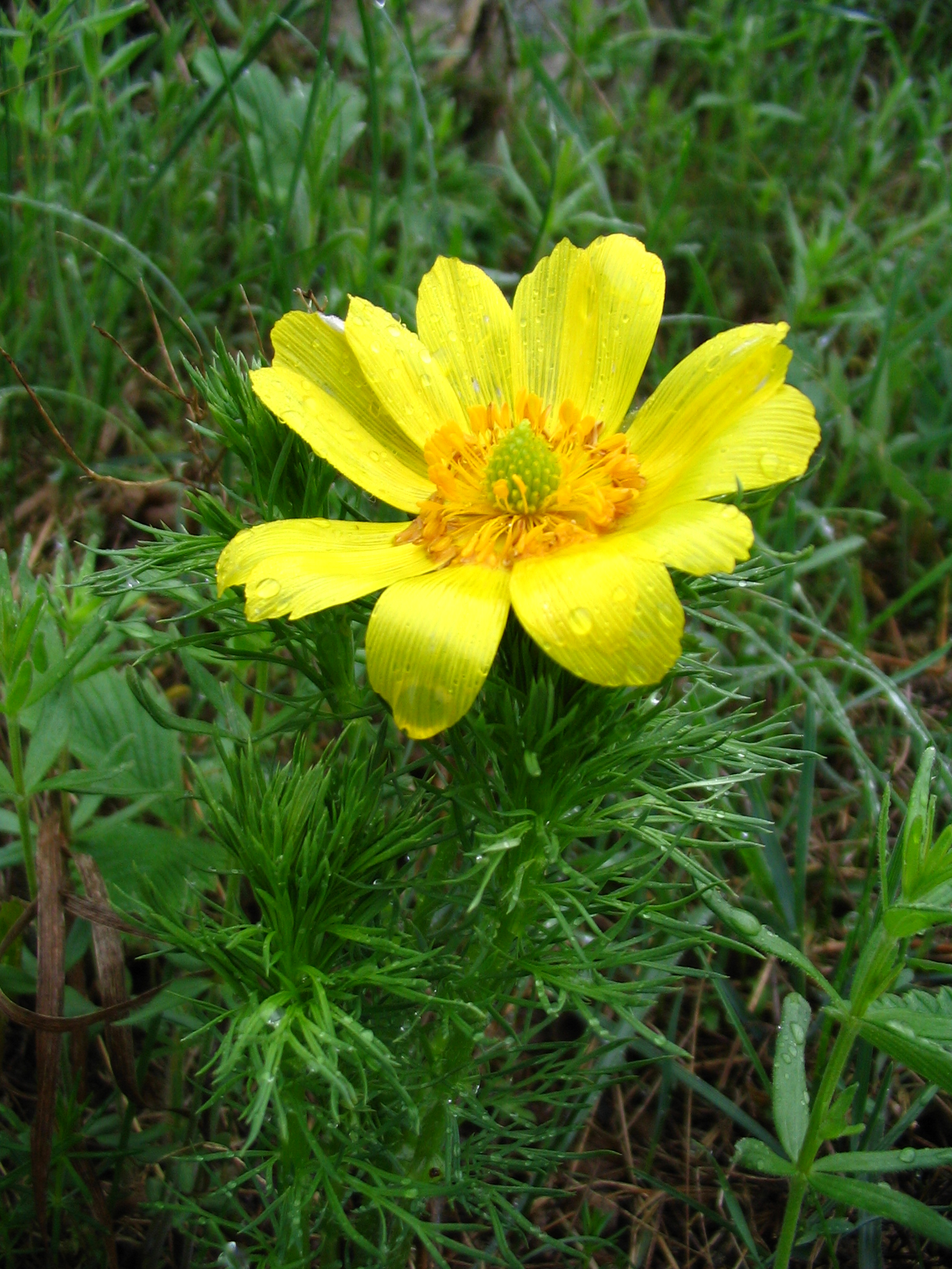 Pheasant's eye (Adonis vernalis), Przęślin nature reserve, Świętokrzyskie Mountains, Poland, 2006 yr. Camera: Canon PowerShot A75